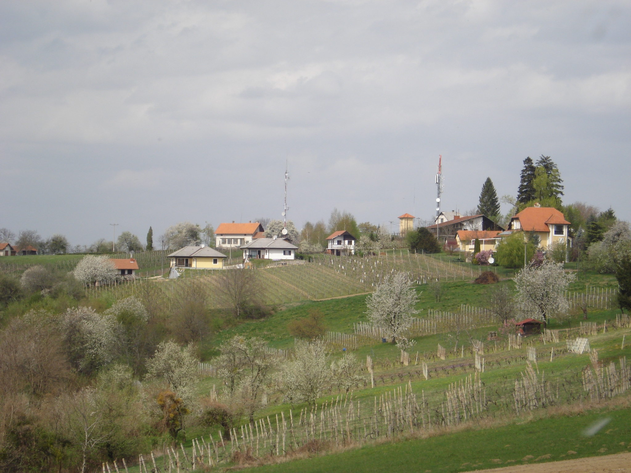 Blossoming fruit trees in Vučetinec village, Međimurje County, northern Croatia (April 2012).